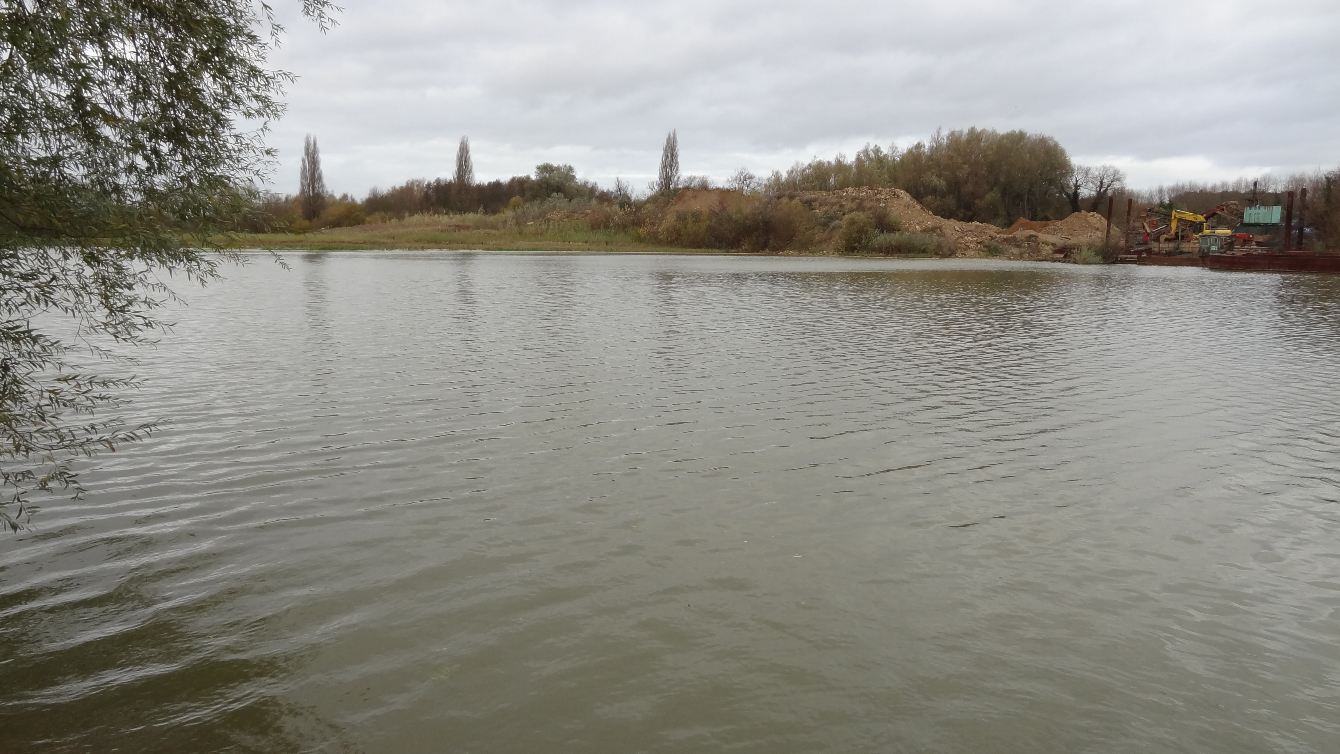 Harefield Lake, Mid Colne Valley SSSI, Harefield, Hillingdon, London